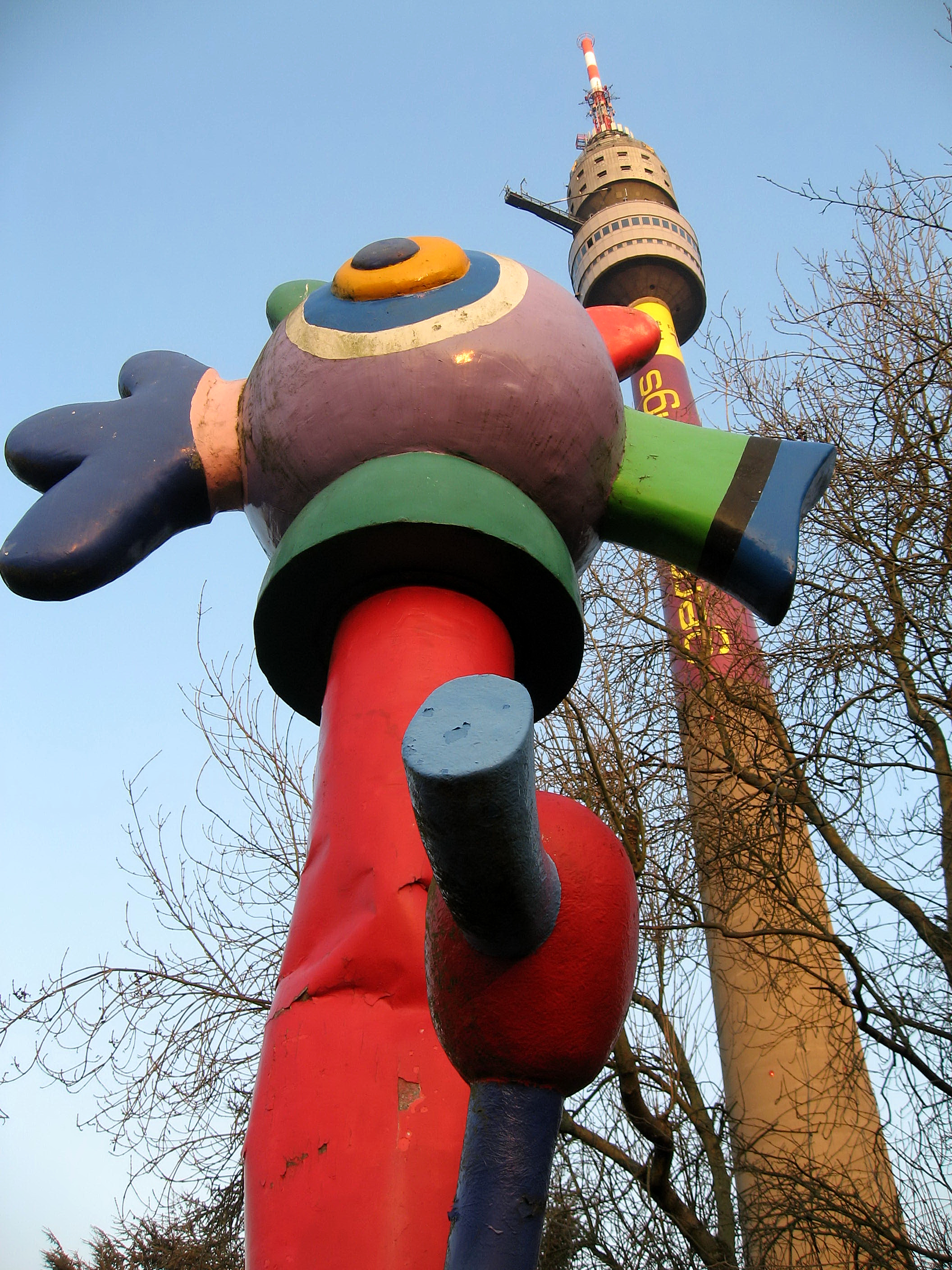 Westfalenpark Dortmund, Sculpture by Otmar Alt am Florianturm/Germany